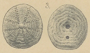 Echinocyamus_pusillus - Small fossil echinoderm from Eemian depoits in the Netherlands